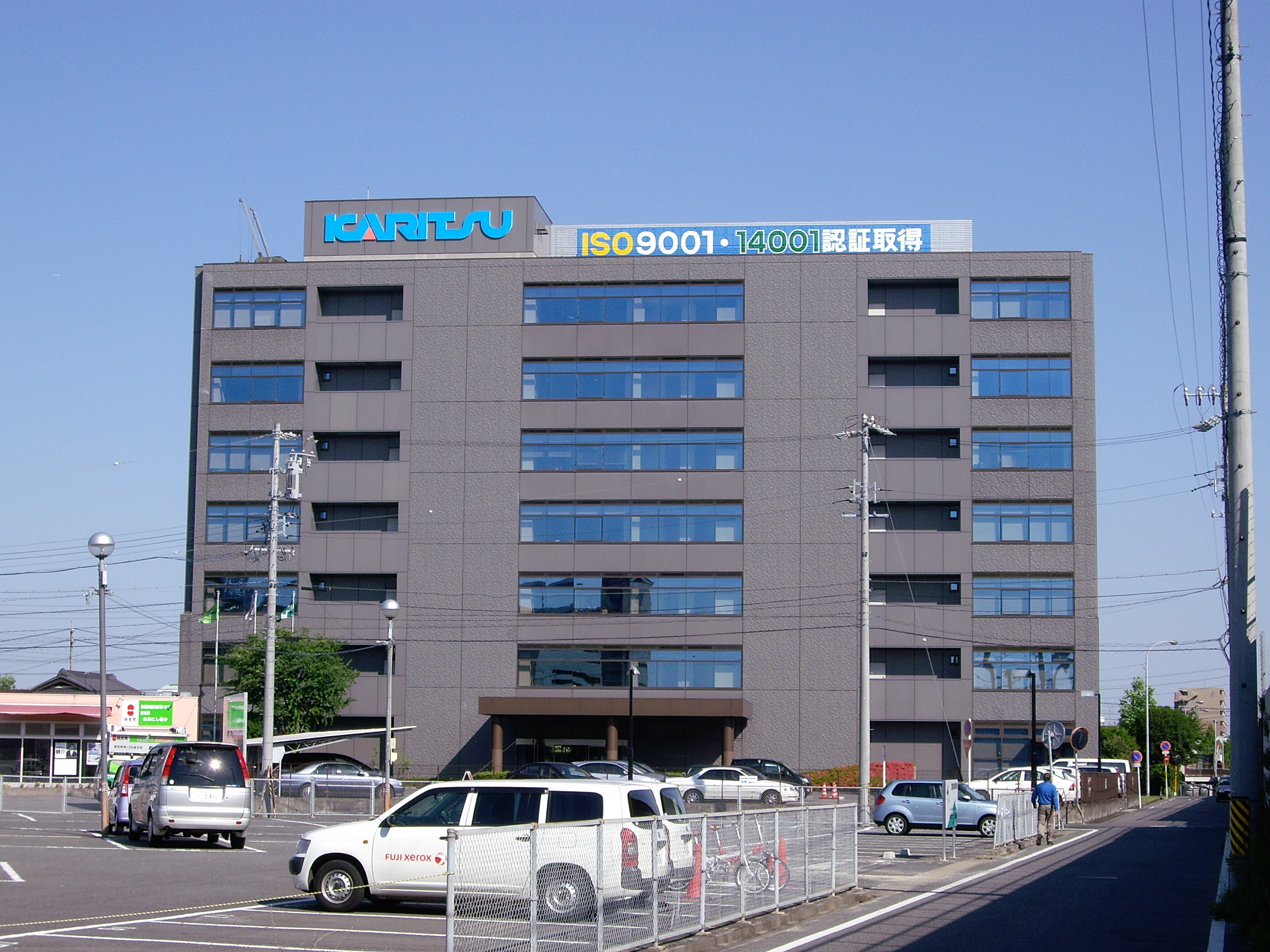 Karitsu headpuarters in Anjo, Aichi.